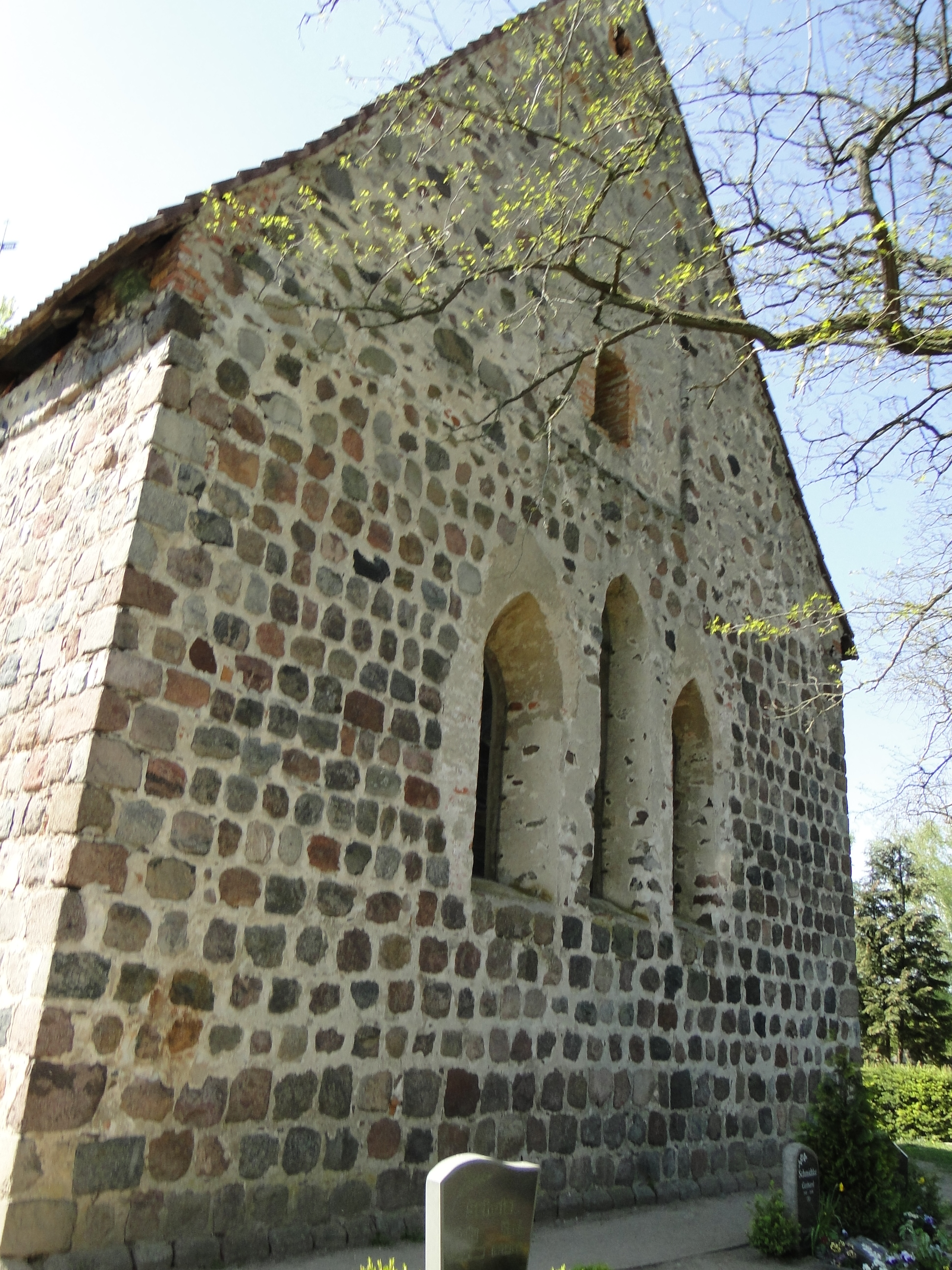 Kirche in Schönbeck, district Mecklenburg-Strelitz, Mecklenburg-Vorpommern, Germany